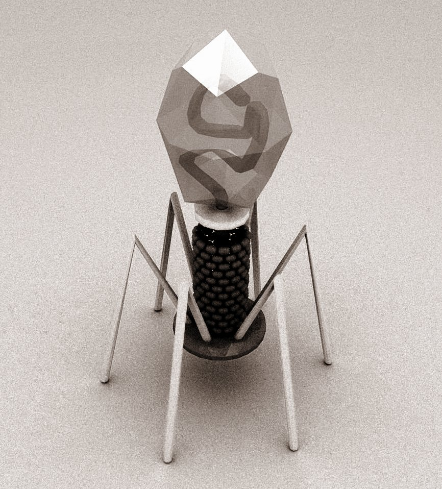 An artist's rendering of a T4 bacteriophage.